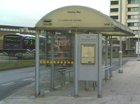 Swindon Town Centre bus stop on Fleming Way. Stop U serves the number 11 service to Old Town and Lawn.